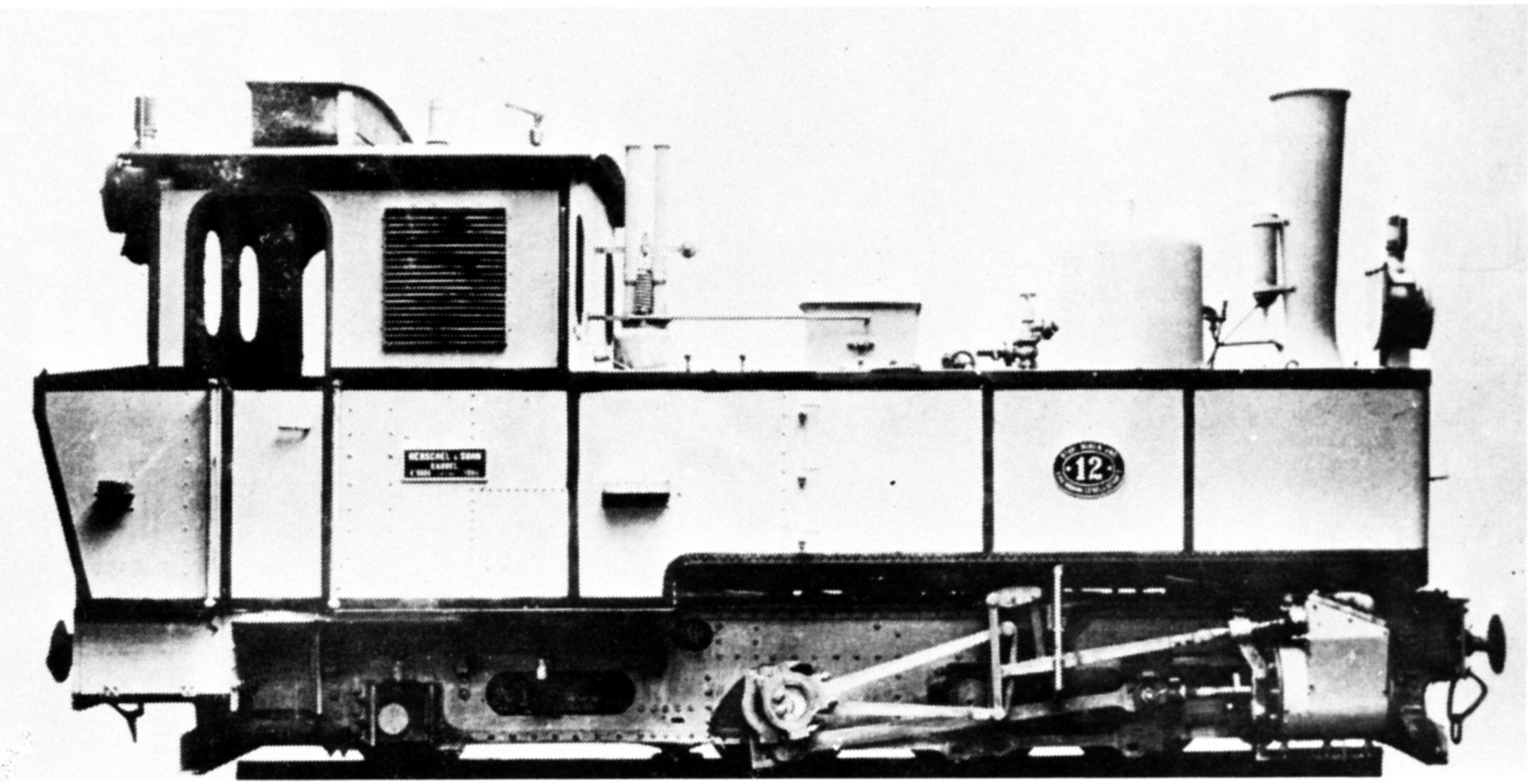 Class Ha 0-6-2T no. 12